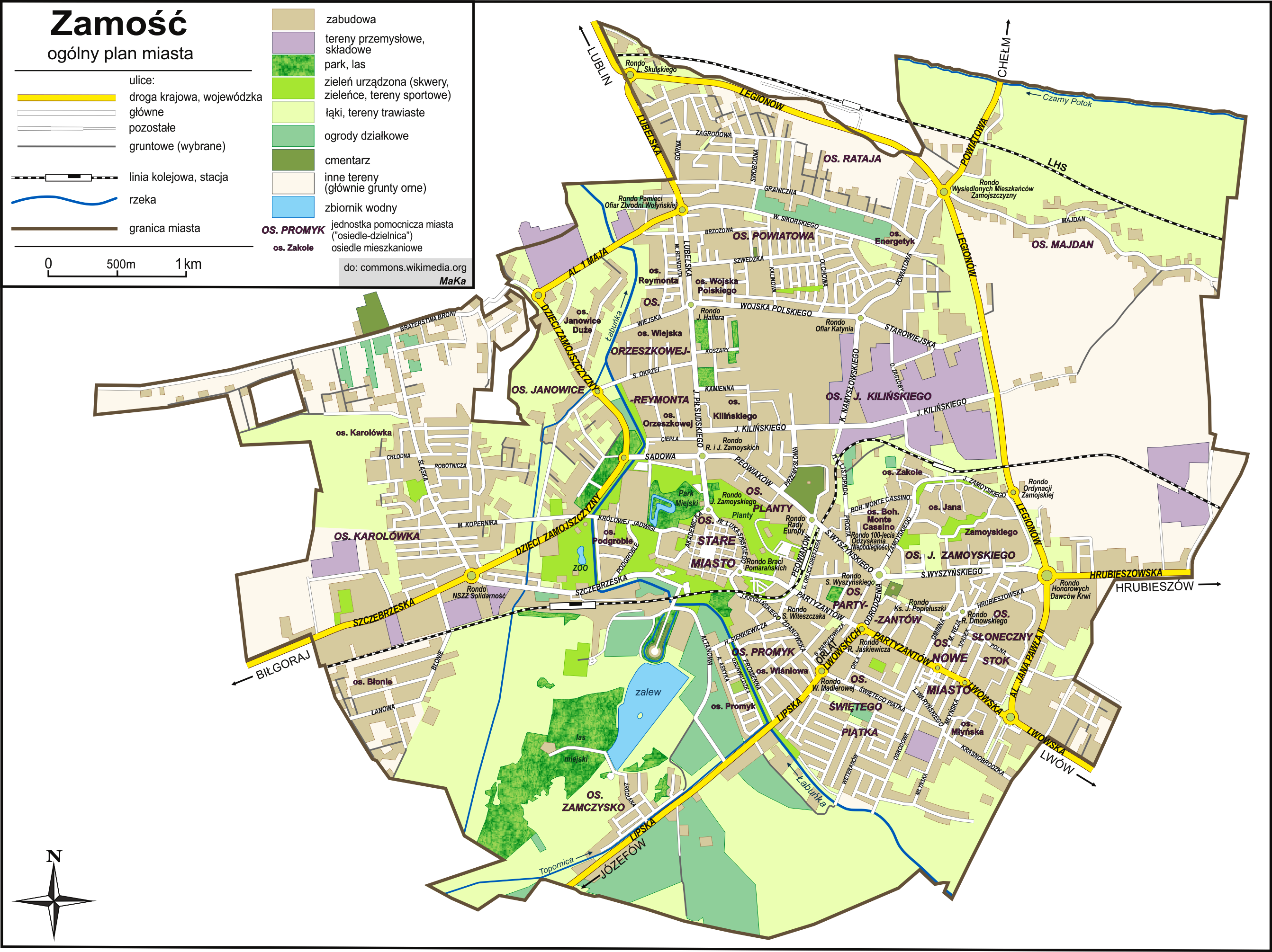 Zamość plan, Poland